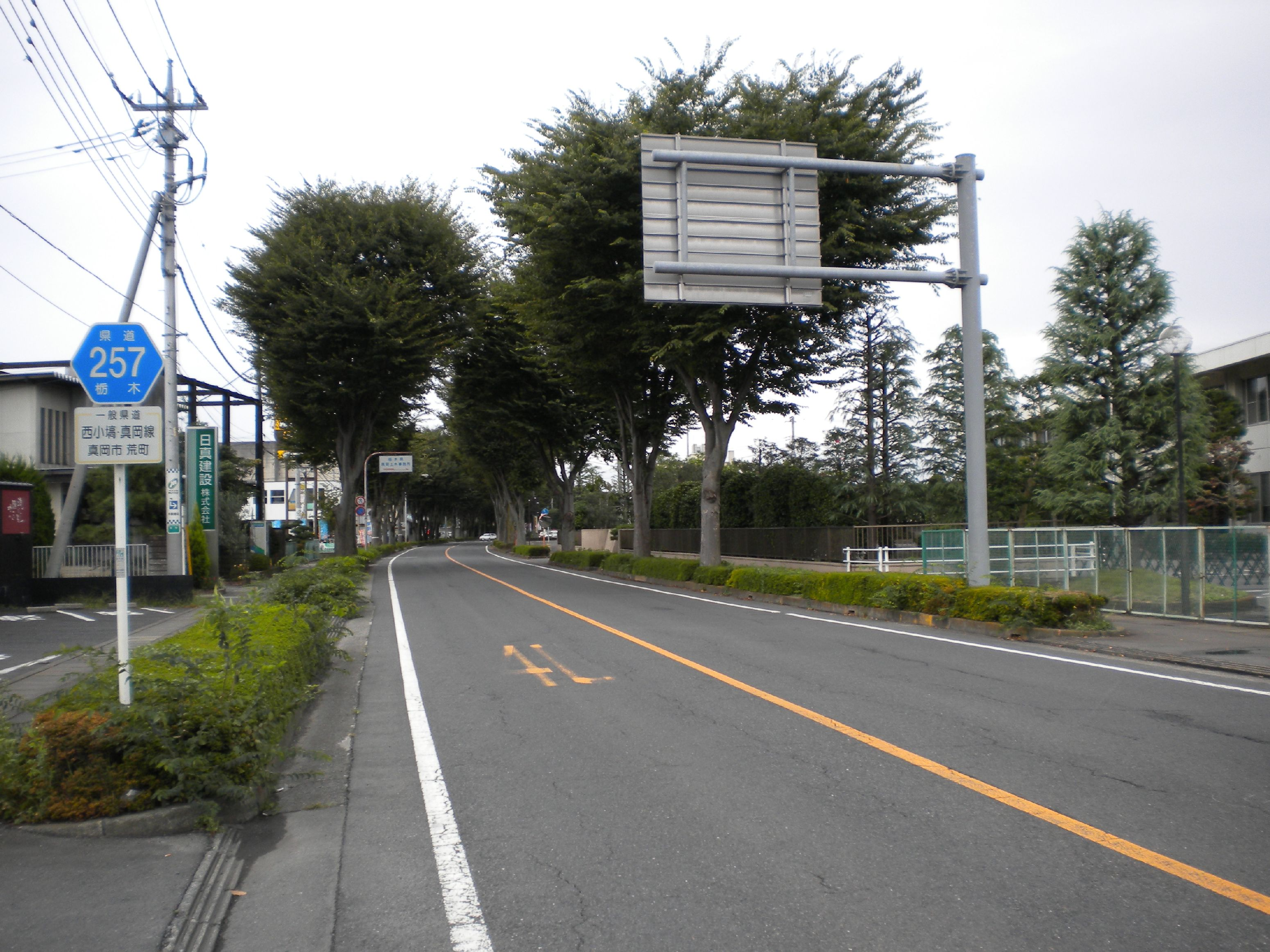 The Tochigi Prefectural Road Route 257 in Aramachi, Moka City